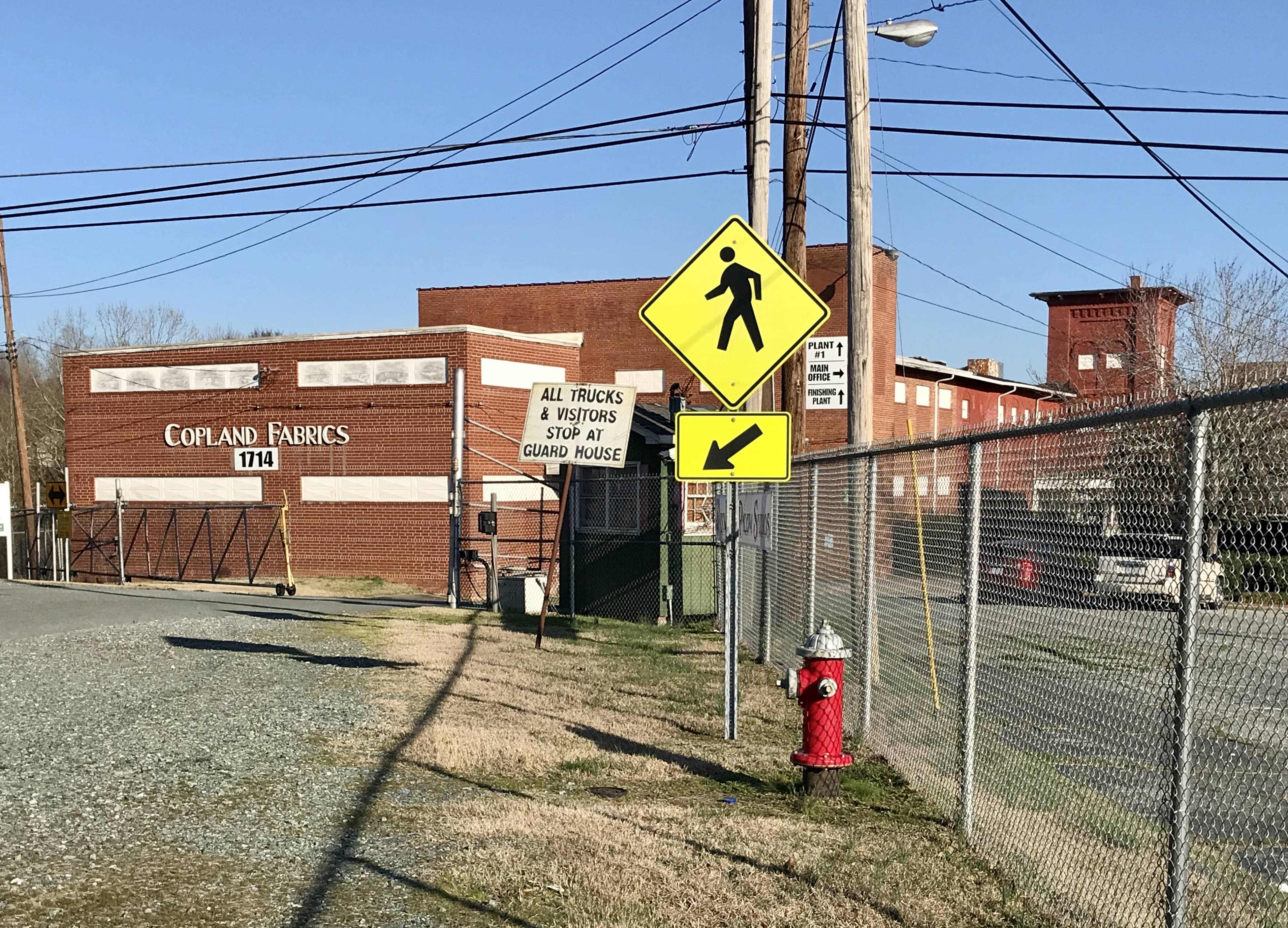 Carolina Mill factory 1, formerly operated by Copland Fabrics